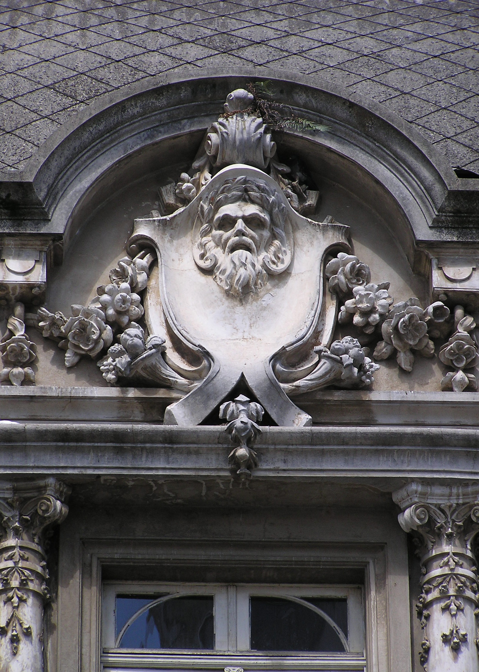 The building in Praça Generoso Marques. It was Parana state public office building before and a Museu Paranaense(Parana Museum) until 4 October 2002.